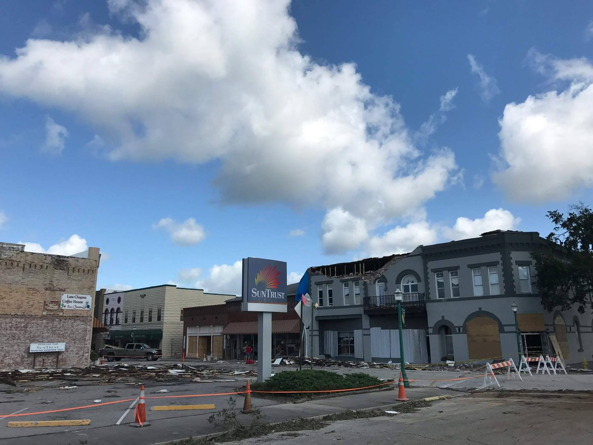 Damage to historic building facades in downtown Arcadia in DeSoto county due to Irma